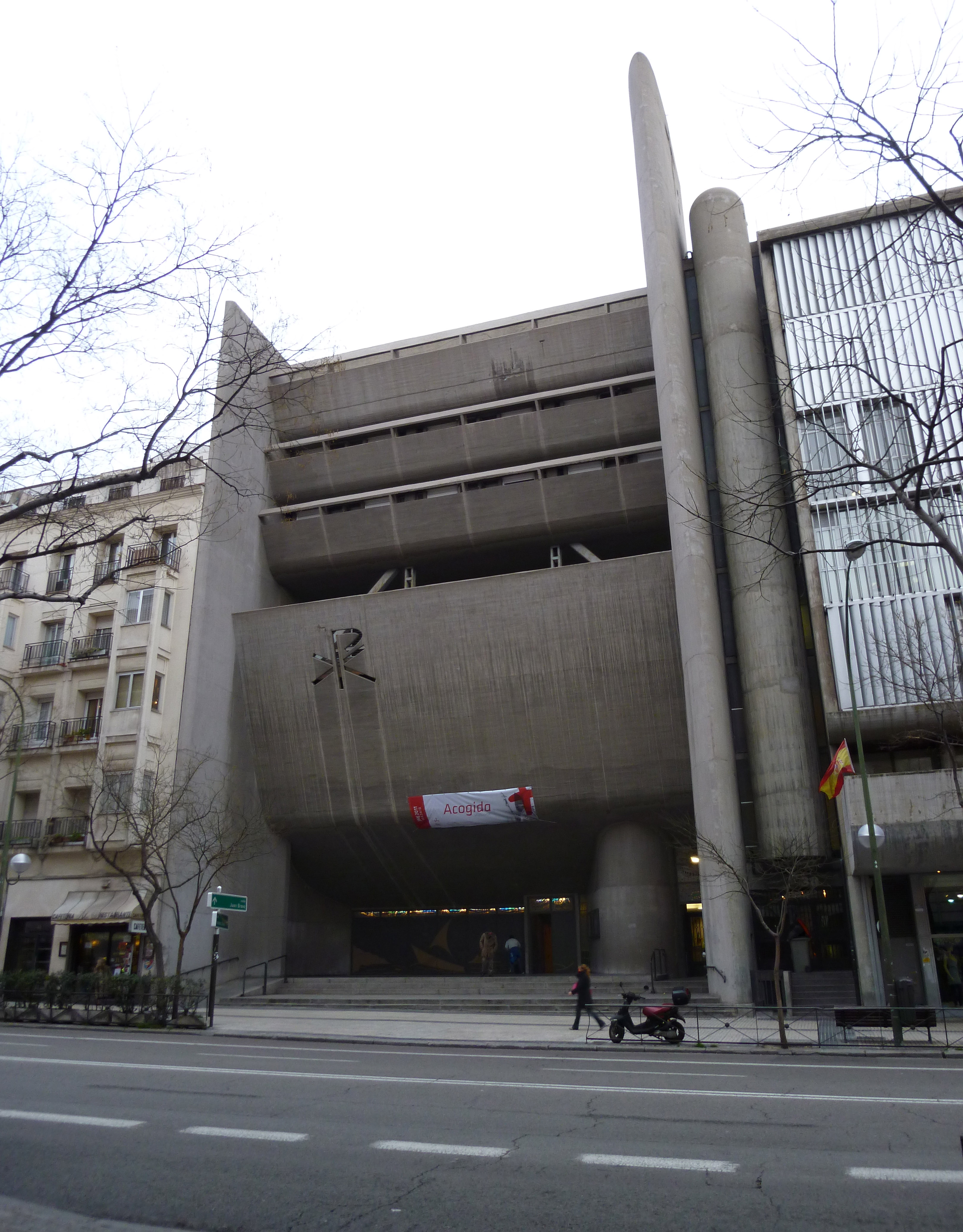 Façade of Church of Our Lady of the Rosary of the Philippines, at 40 Calle del Conde de Peñalver (street) in Salamanca district in Madrid (Spain). It was projected in 1967 by Cecilio Sánchez-Robles Tarín and built between 1967 and 1970.